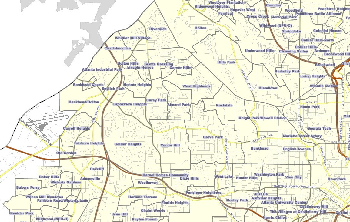 Neighborhoods of Northwestern Atlanta, Georgia, USA